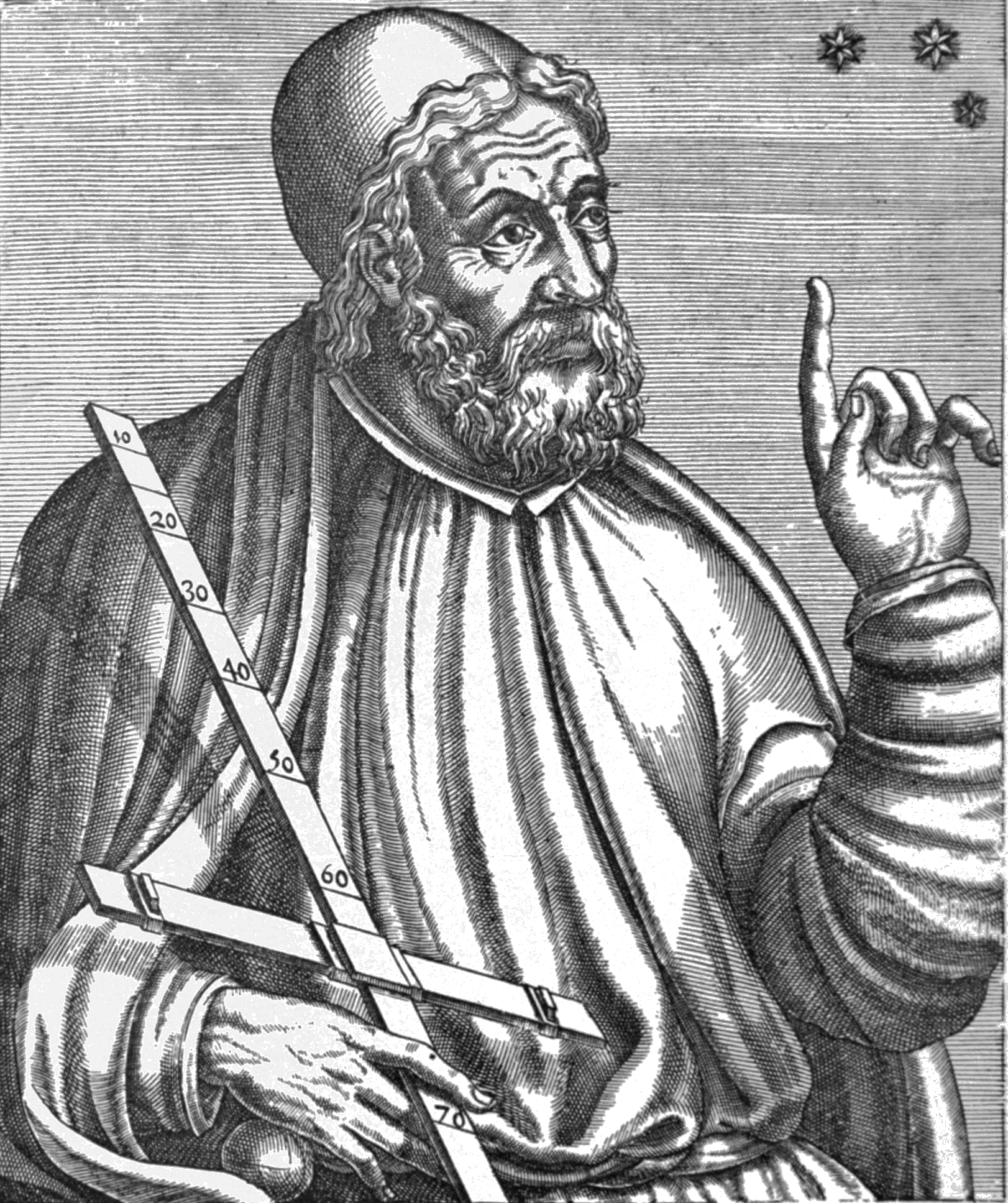 Representation of Ptolemy. Previously published in Les vrais pourtraits et vies des hommes illustres grecz, latins, et payens recueilliz de leurs tableaux livres et medalles antiques, et modernes. Par Andre Thevet angoumoysin, premier cosmographe du roy., premier tome, livre II, chap. 41, "Claude Ptolemee Pelusien", p. 87. Published by Blanche Marantin and Guillaume Chaudiere, Paris, 1584.